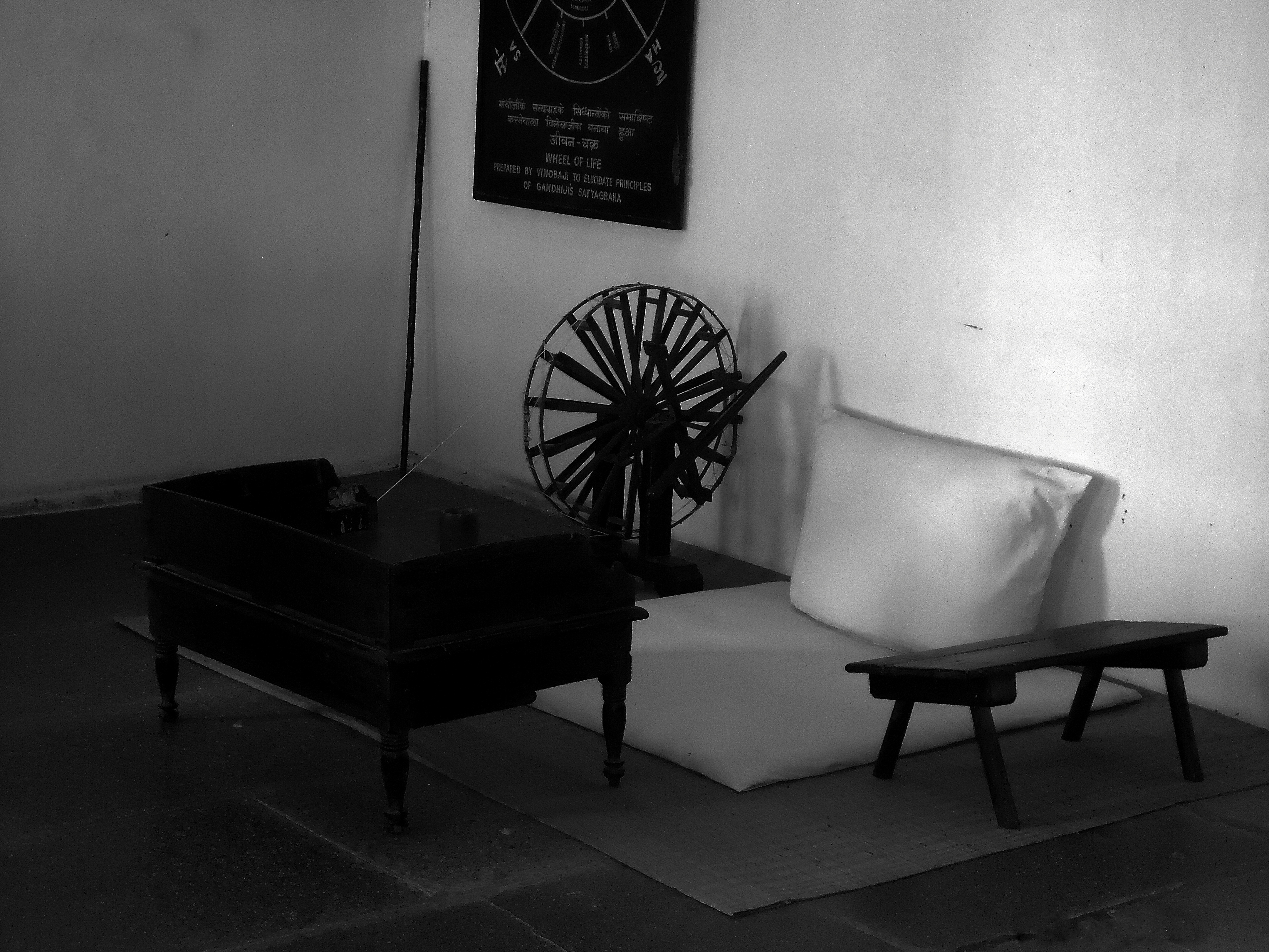 This place is the using By Gnadhi Bapu for doing his daily writing works & the also for the studies ...